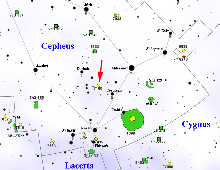 Map of NGC 7160